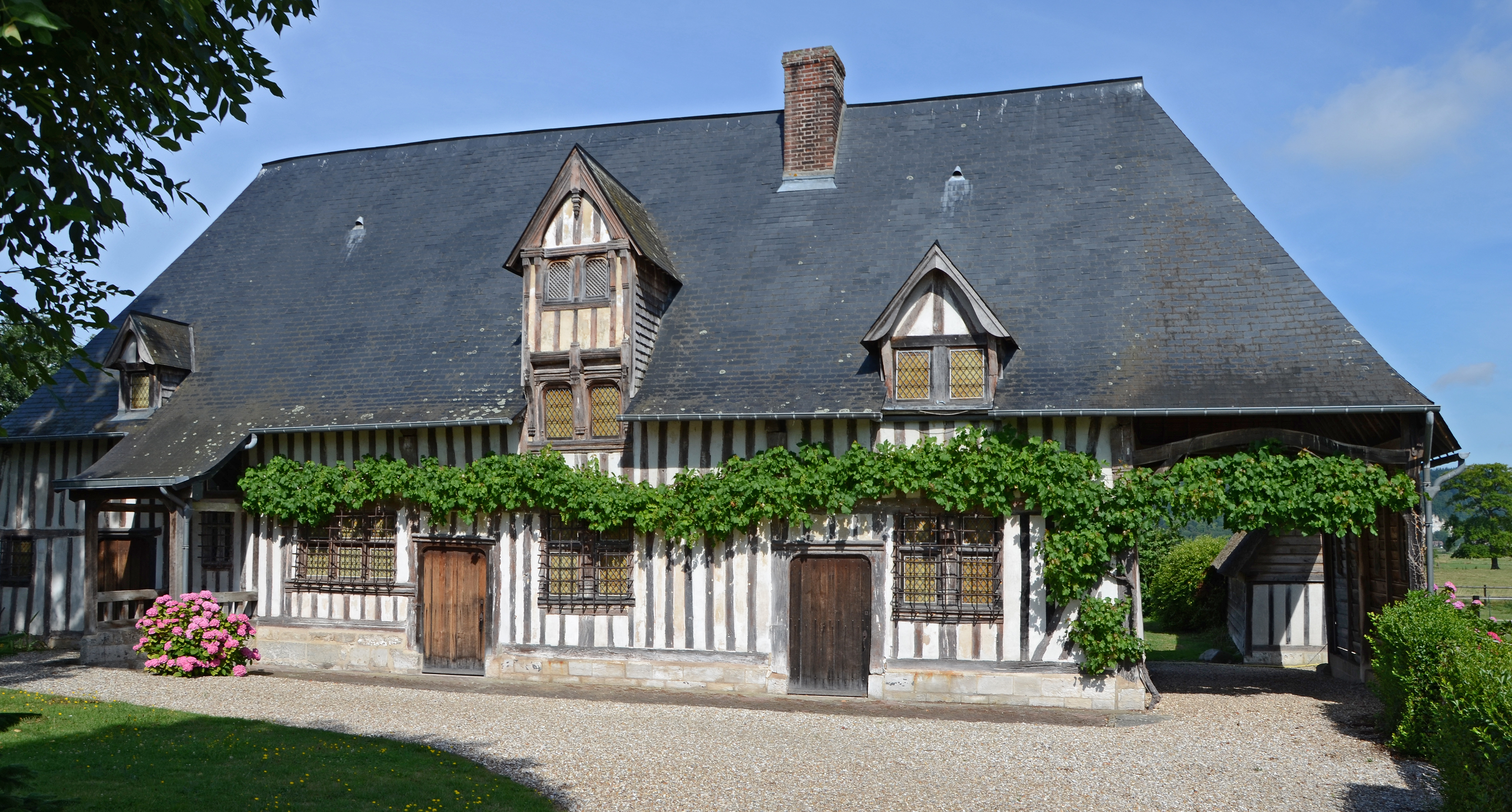 House said "Logis du Roy" or of Francois I in Vattevile la Rue, Seine Maritime, France